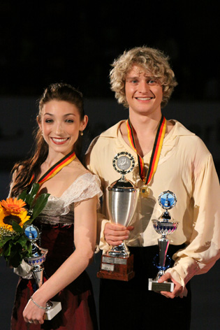 2009 Nebelhorn Trophy - Meryl Davis and Charlie White